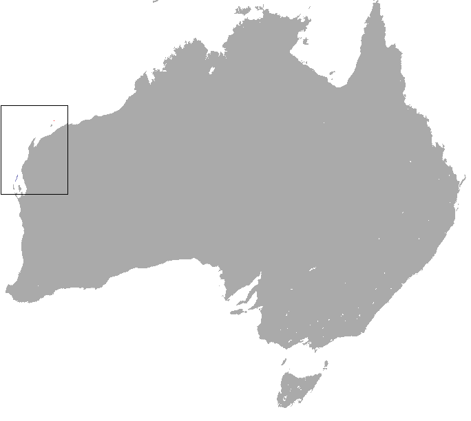 Rufous Hare Wallaby (Lagorchestes hirsutus) range (blue — native, red — introduced)